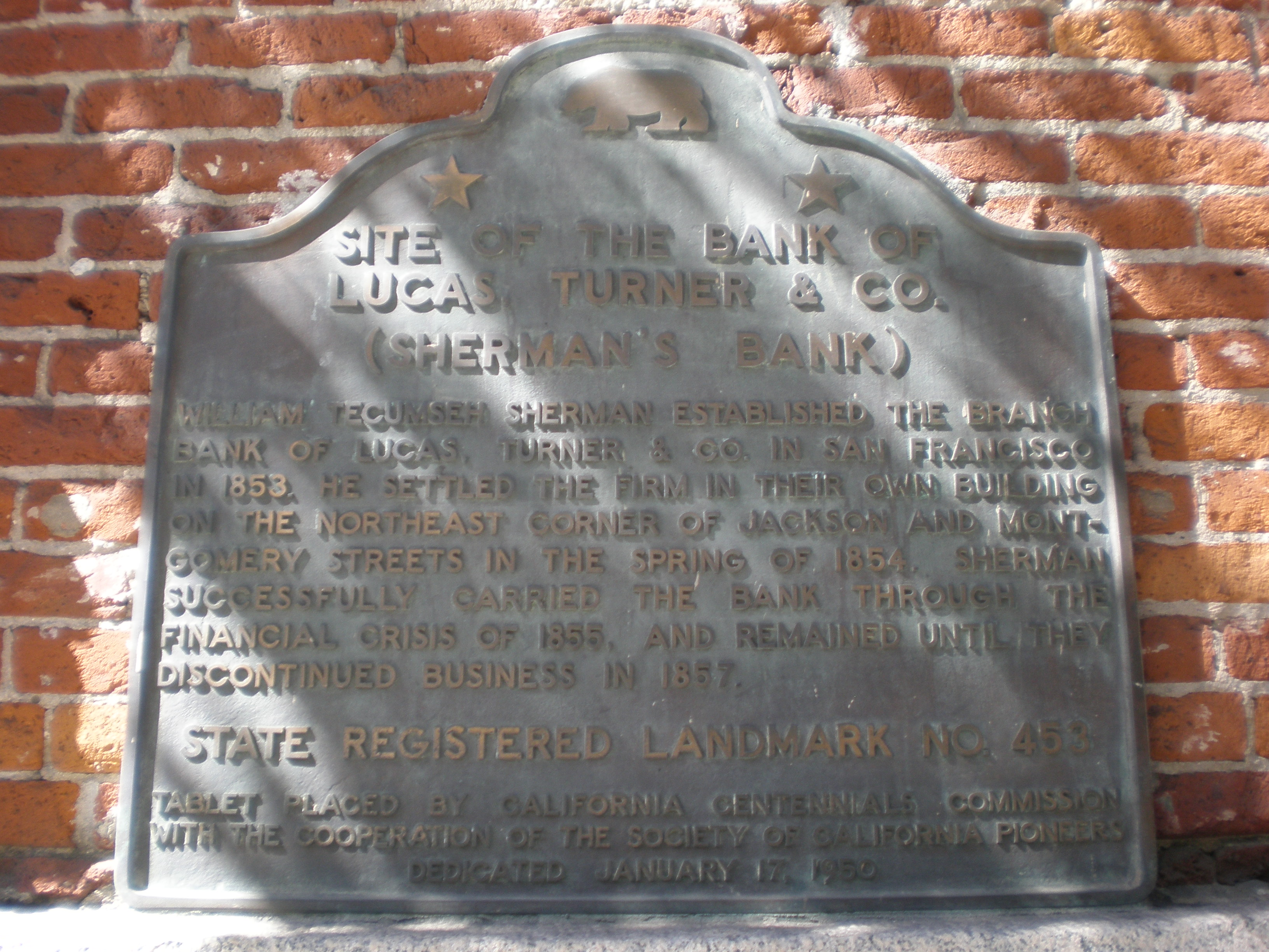 A plaque commemorating the site of the Bank of Lucas, Turner & Co. that was run by William Tecumseh Sherman at Montgomery and Jackson Streets in San Francisco, California.